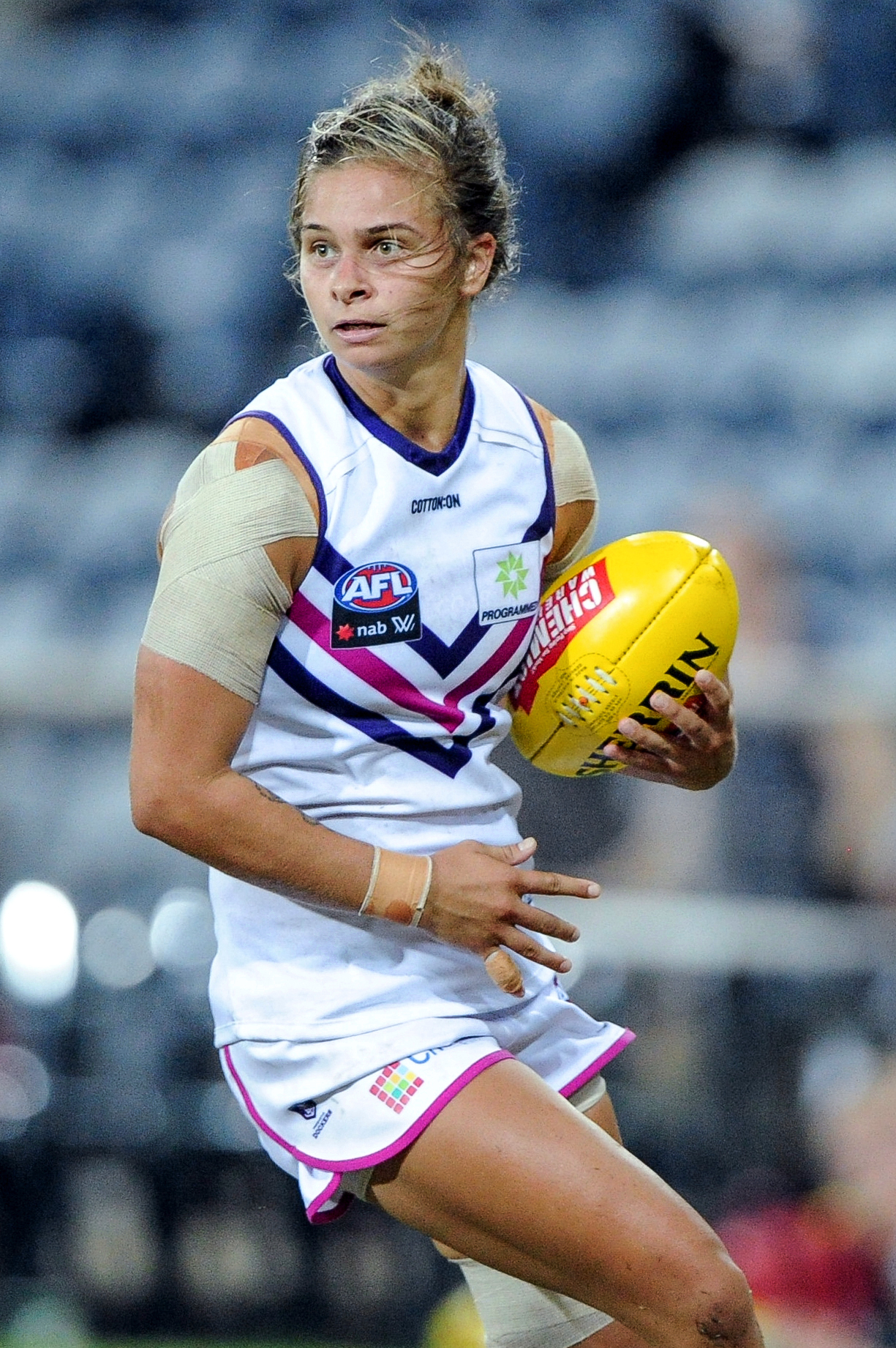 Tiah Haynes in the AFL Women's preseason match between the Adelaide Football Club and Fremantle Football Club on 20 January 2018 at TIO Stadium.